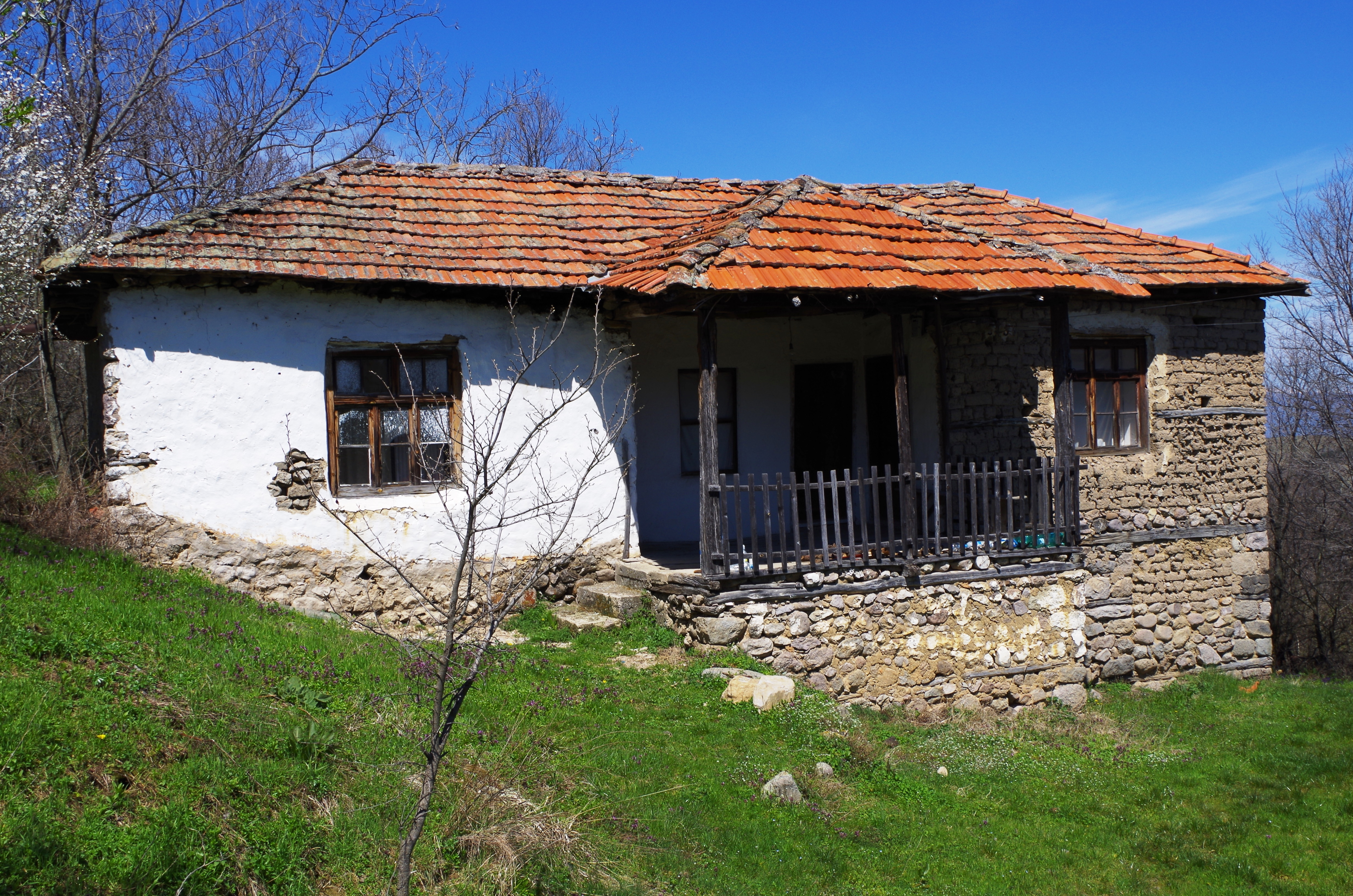 Old family house in the village Gorni Disan